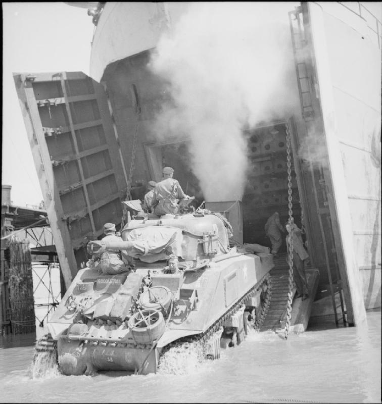 The British Army in the United Kingdom 1939-45 Sherman tank of the East Riding Yeomanry, 27th Armoured Brigade, being reversed into a landing ship at Gosport, 1 June 1944.